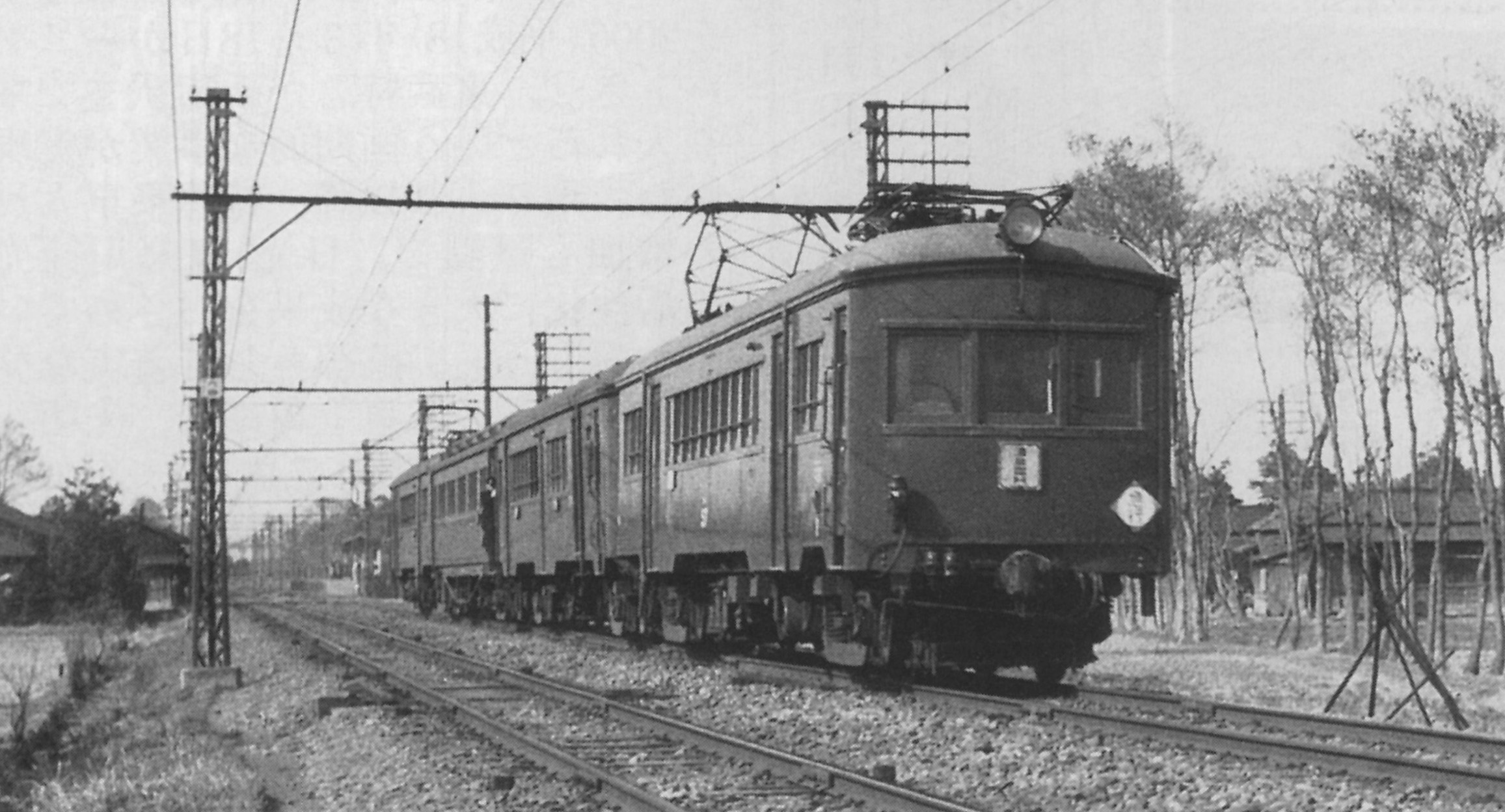 A 4-car EMU (DeHa + SaHa + KuNiHa + DeHa) formation near Shinden Station on the Tobu Isesaki Line on an up express service bound for Asakusa Kaminarimon Station (present-day Asakusa)